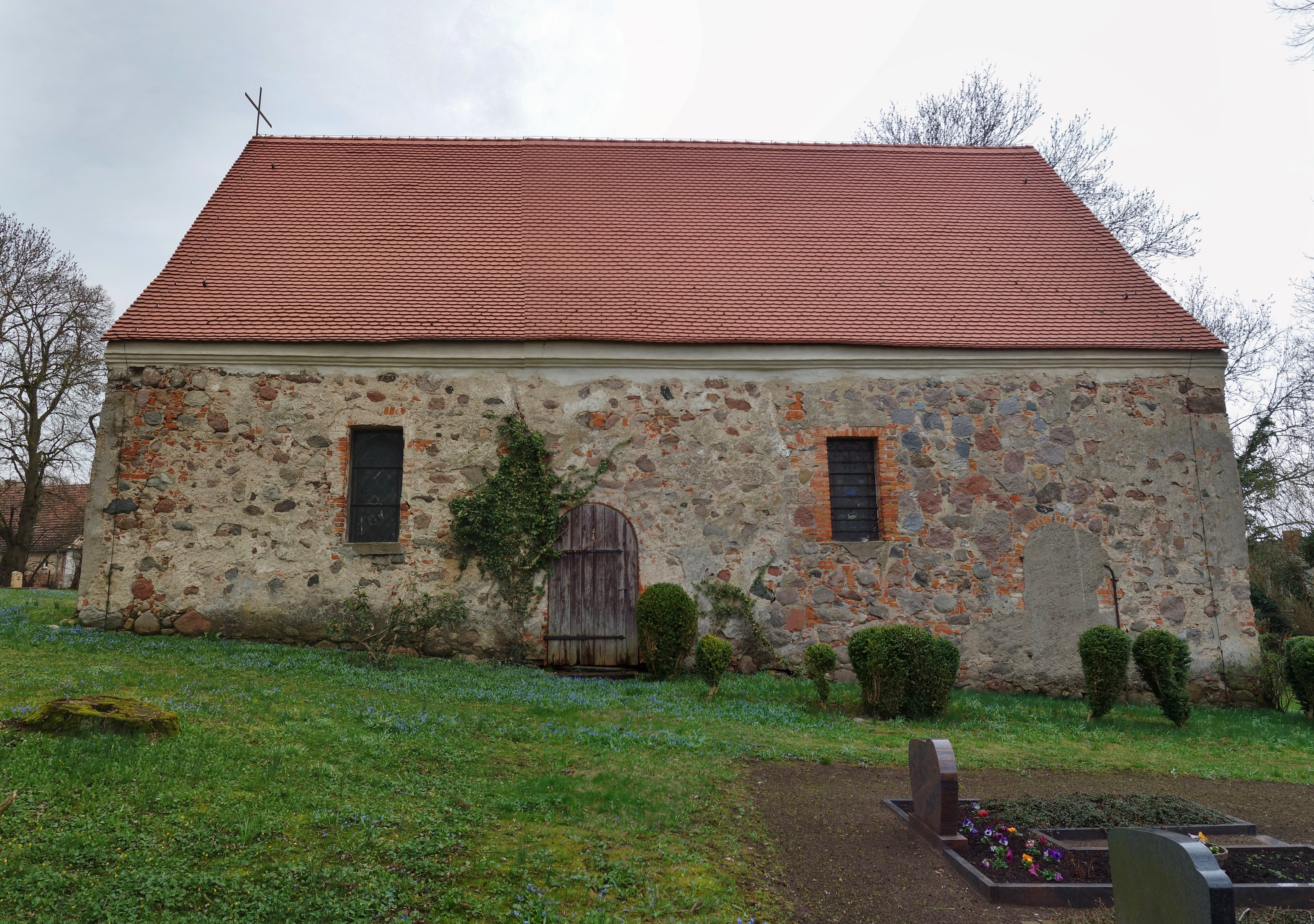 Southern view of church in Werbelow, Uckerland municipality, Uckermark district, Brandenburg state, Germany